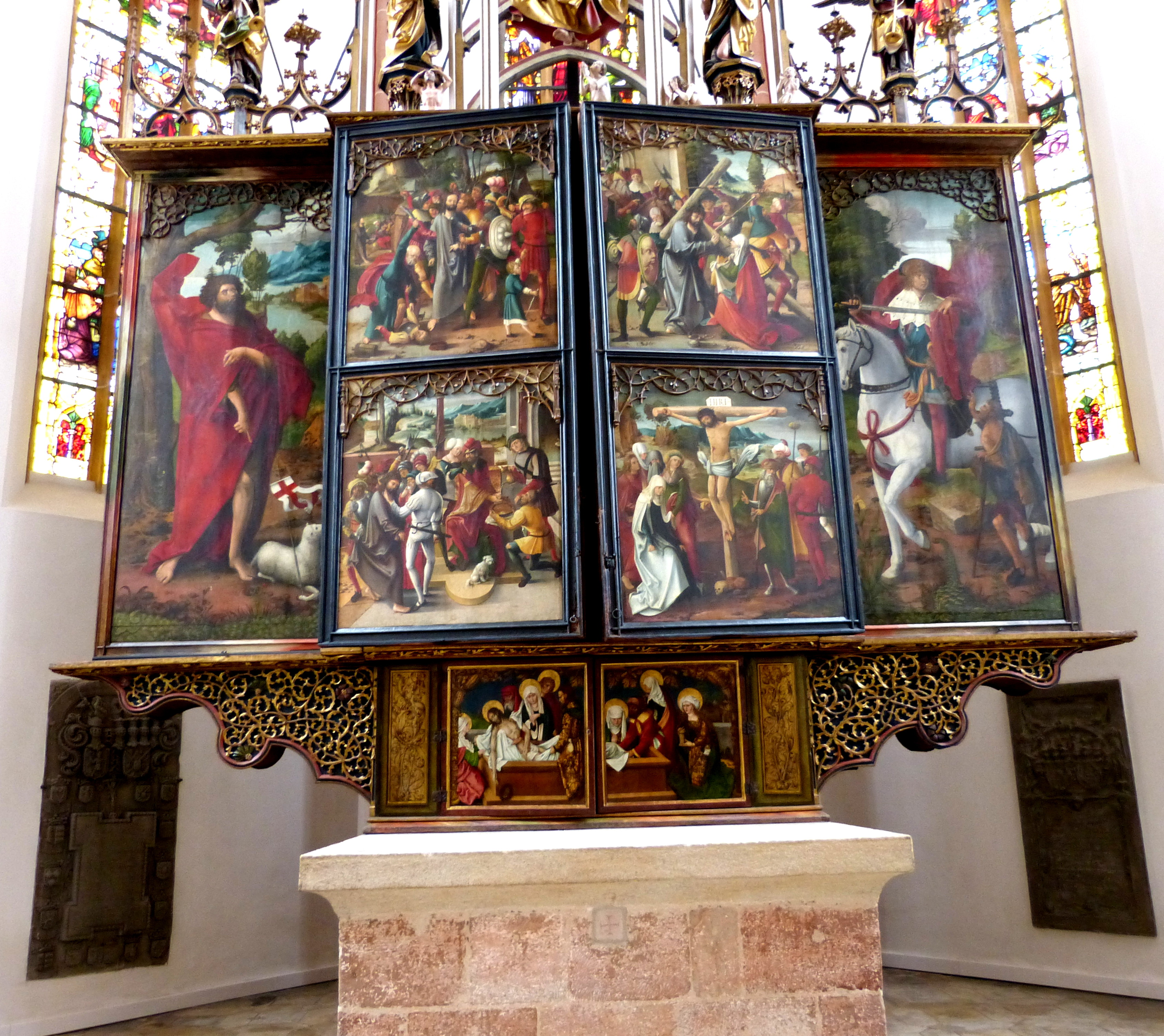 Schwabach - City church. High altar with closed wings showing paintings ( 1506-08 ) by the workshop of Michael Wolgemut.